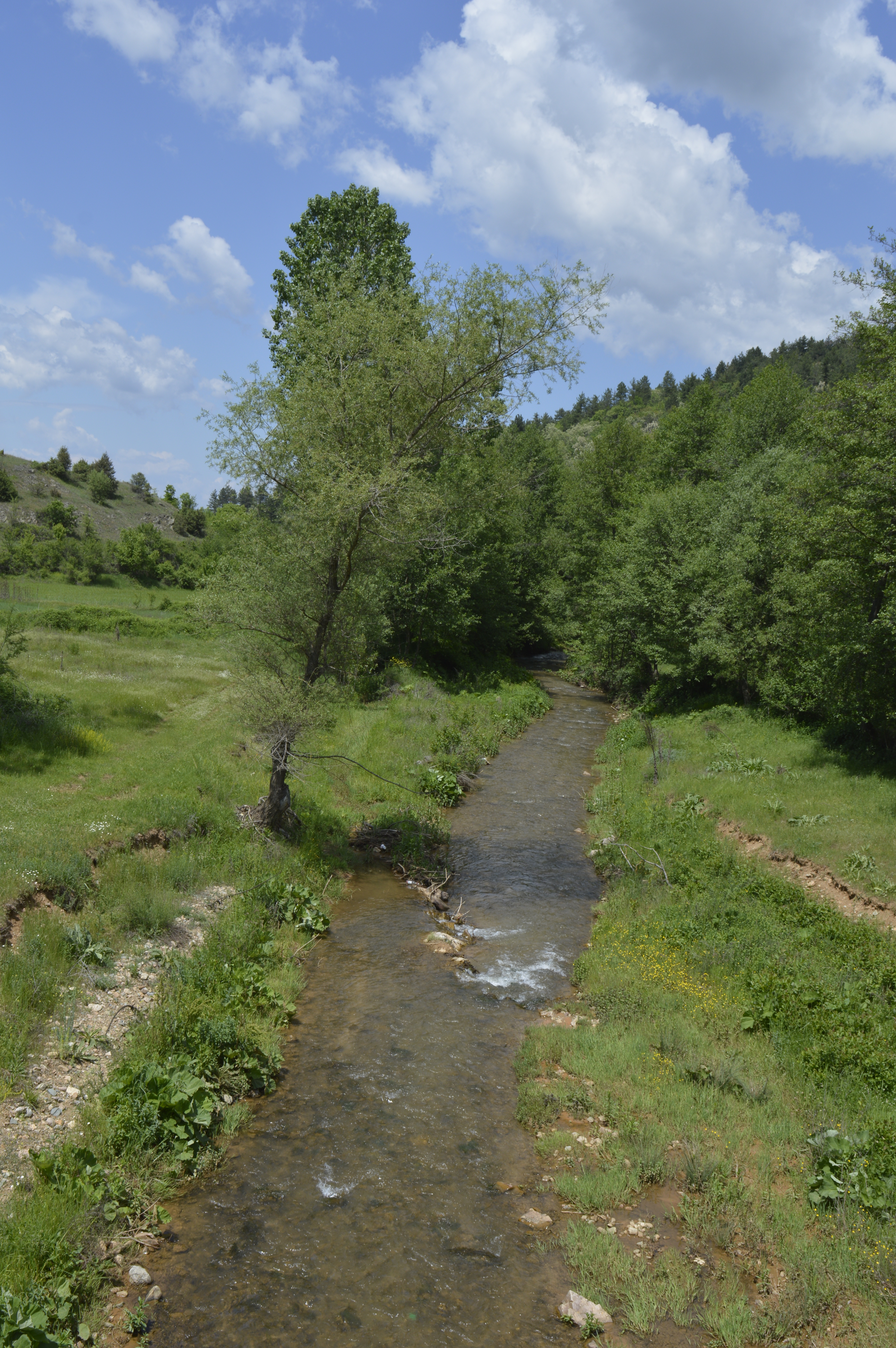 View of the river Želevica in the village Nov Istevnik